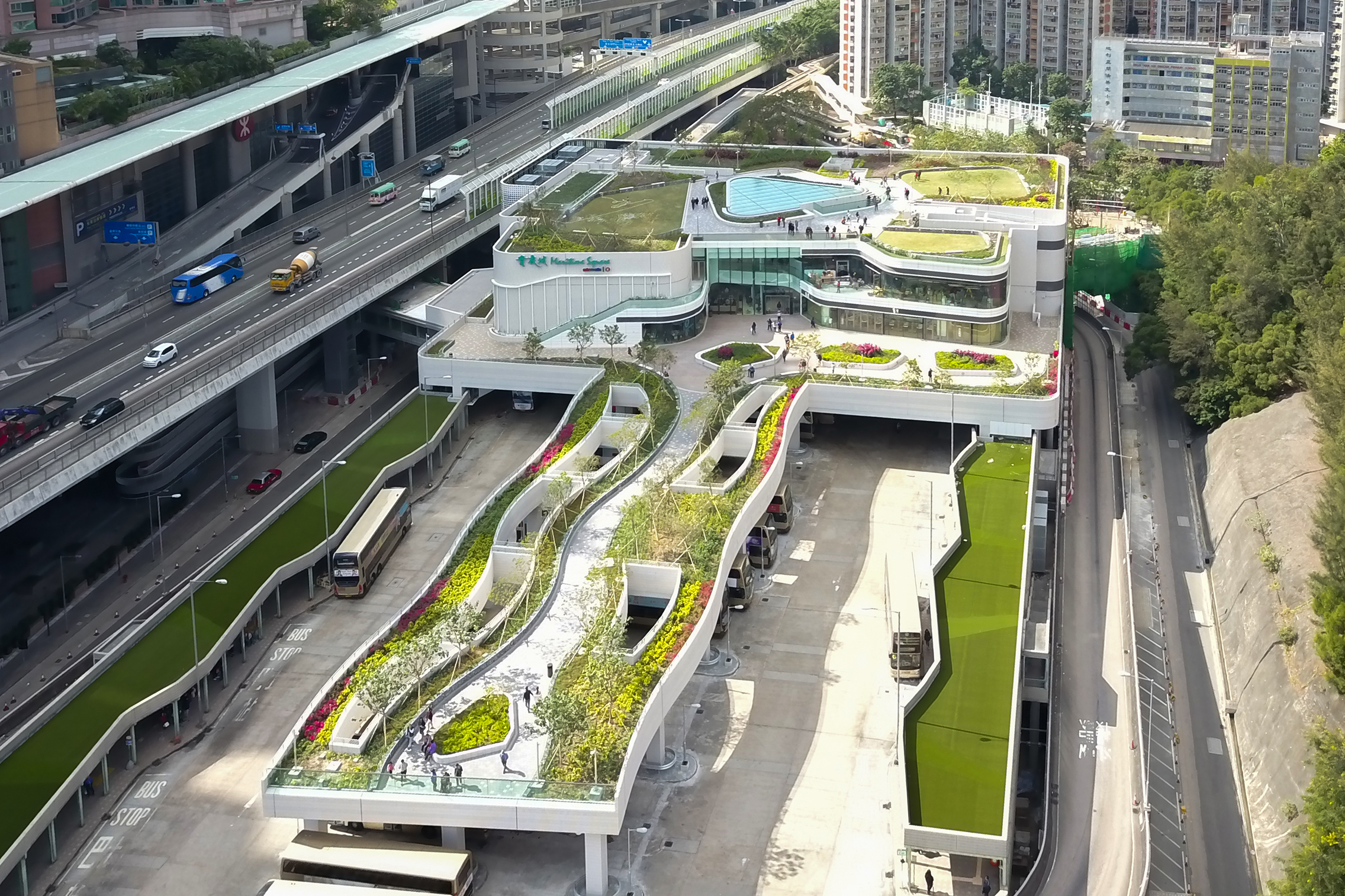 Maritime Square 2 overview